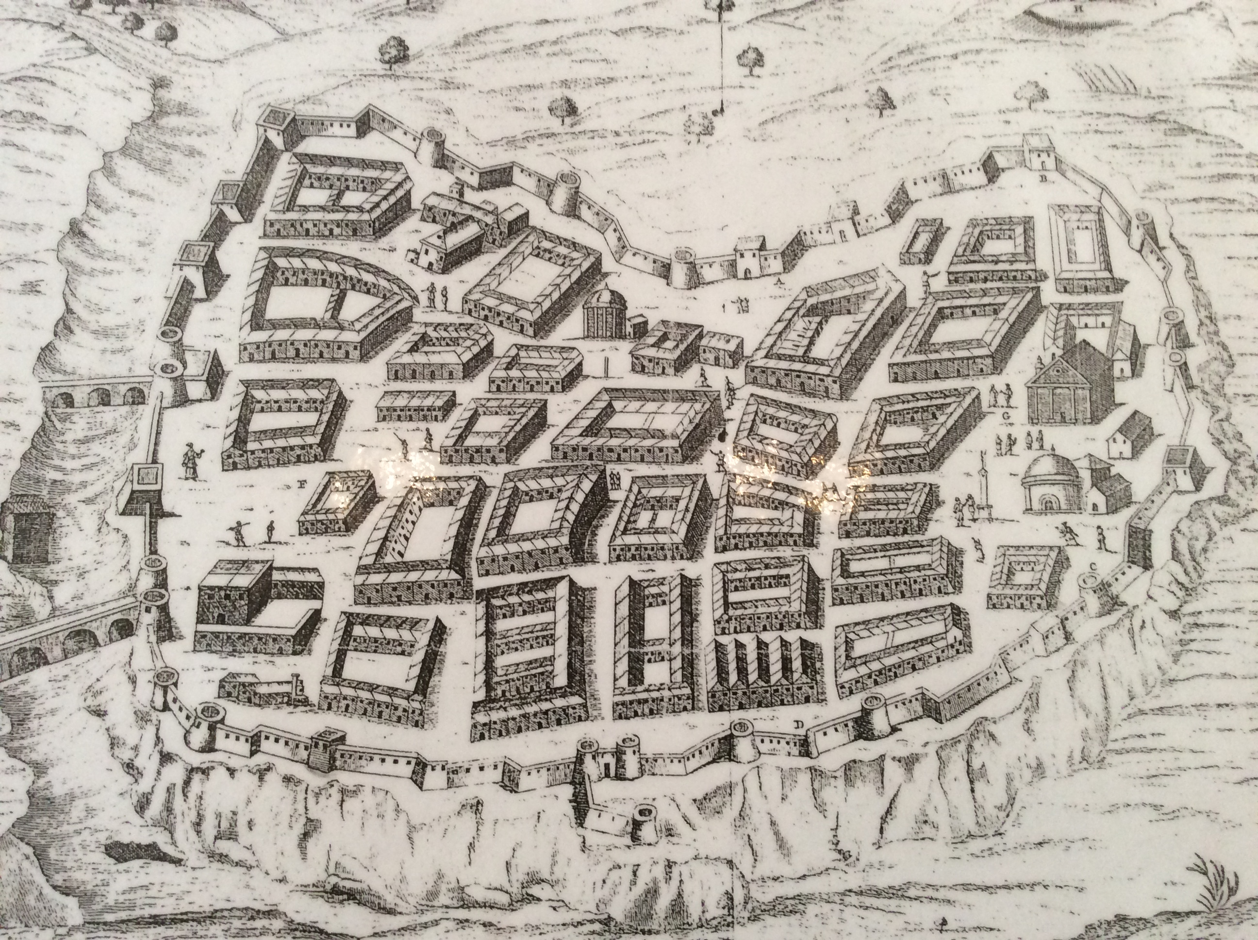 Rabat walk 2017